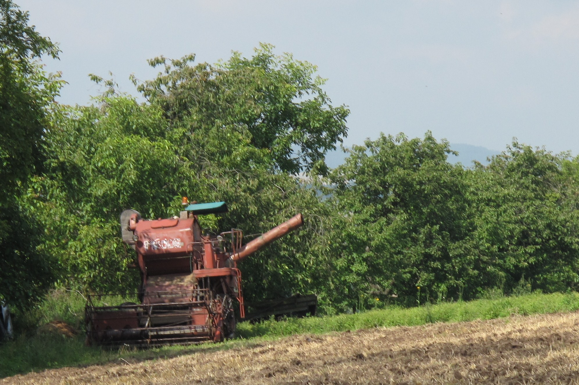 This photograph was taken within the scope of the second year of the 'Czech Municipalities Photographs' grant. Česky: Starý kombajn v Boušicích. Okres Benešov, Česká republika.